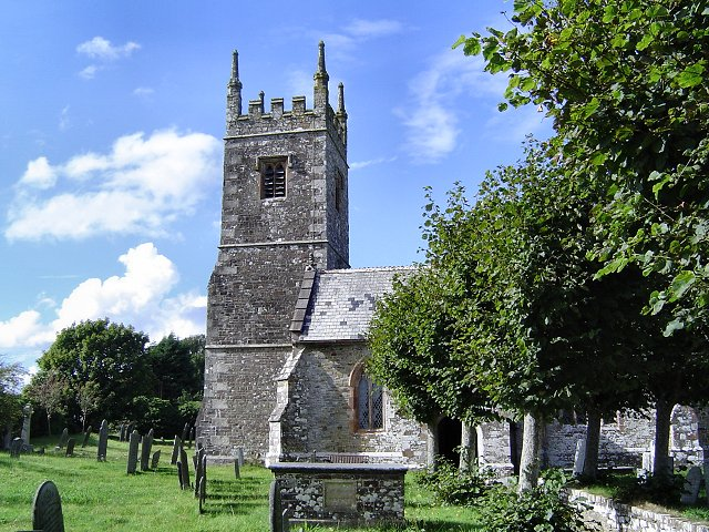 St Peter's parish church, Peters Marland, Devon, seen from the south